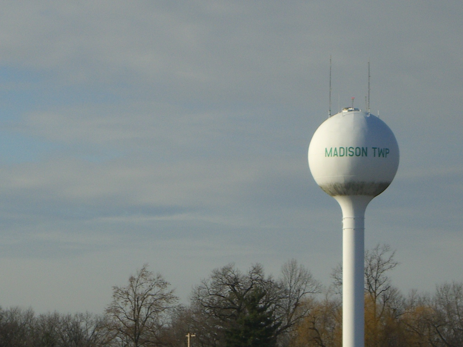 Photo by Nick Juhasz.